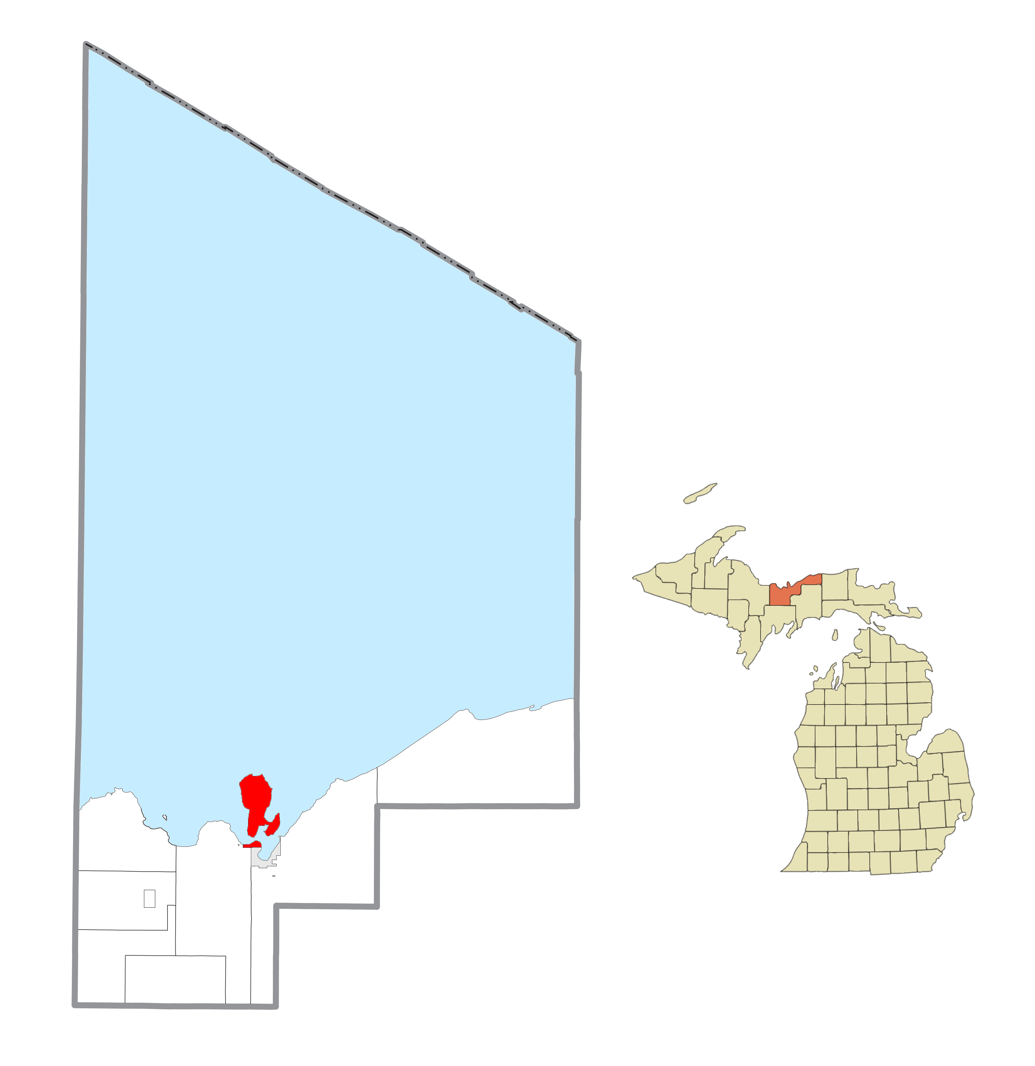 Grand Island Township, MI